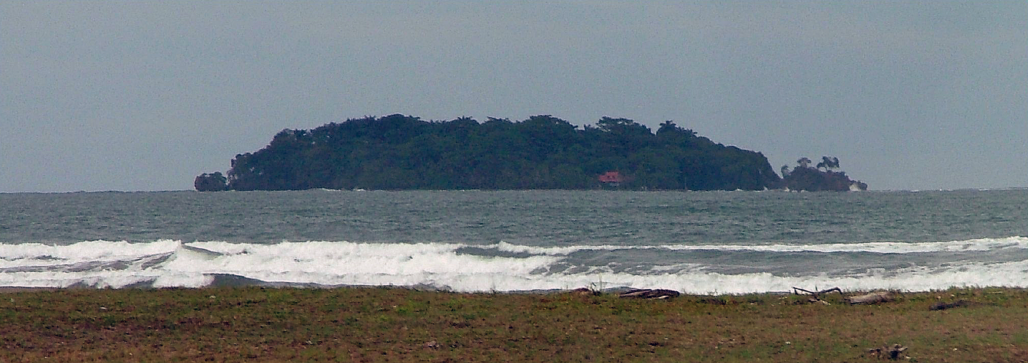 Uvita Island, off the coast of Puerto Limon, Costa Rica, in the Caribbean Sea.